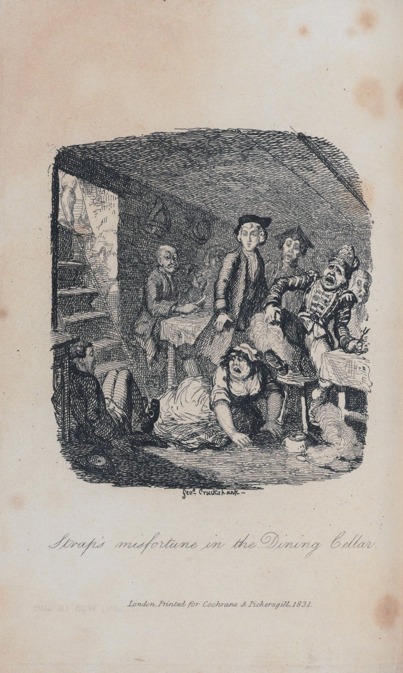 Illustration by George Cruikshank (1792-1878) for The Adventures of Roderick Random, 1831, by Tobias Smollett Smollett, (1721-1771). *AC85.J2335.Zz831s2, Houghton Library, Harvard University